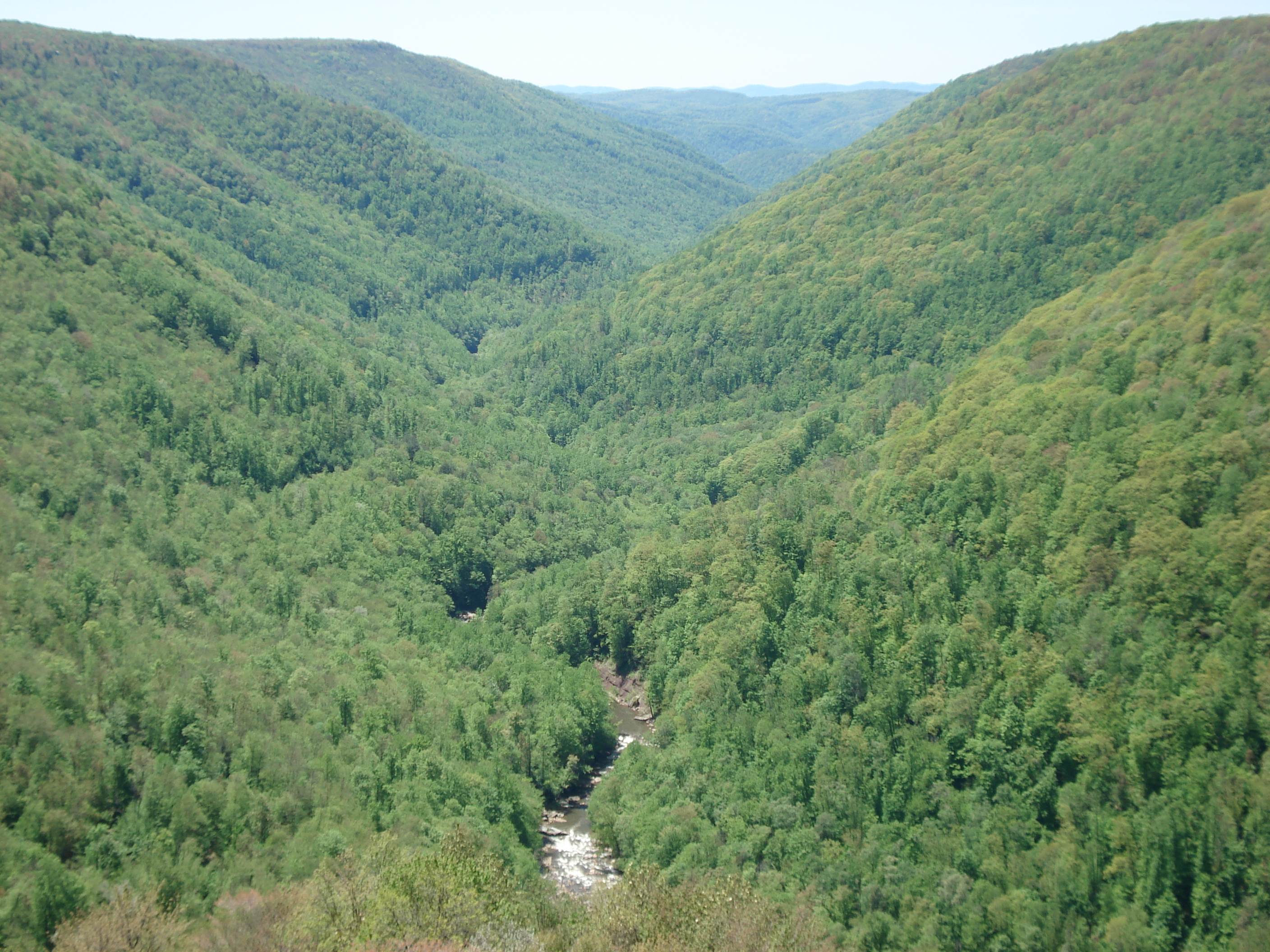 View of Blackwater Canyon, West Virginia, from Lindy Point